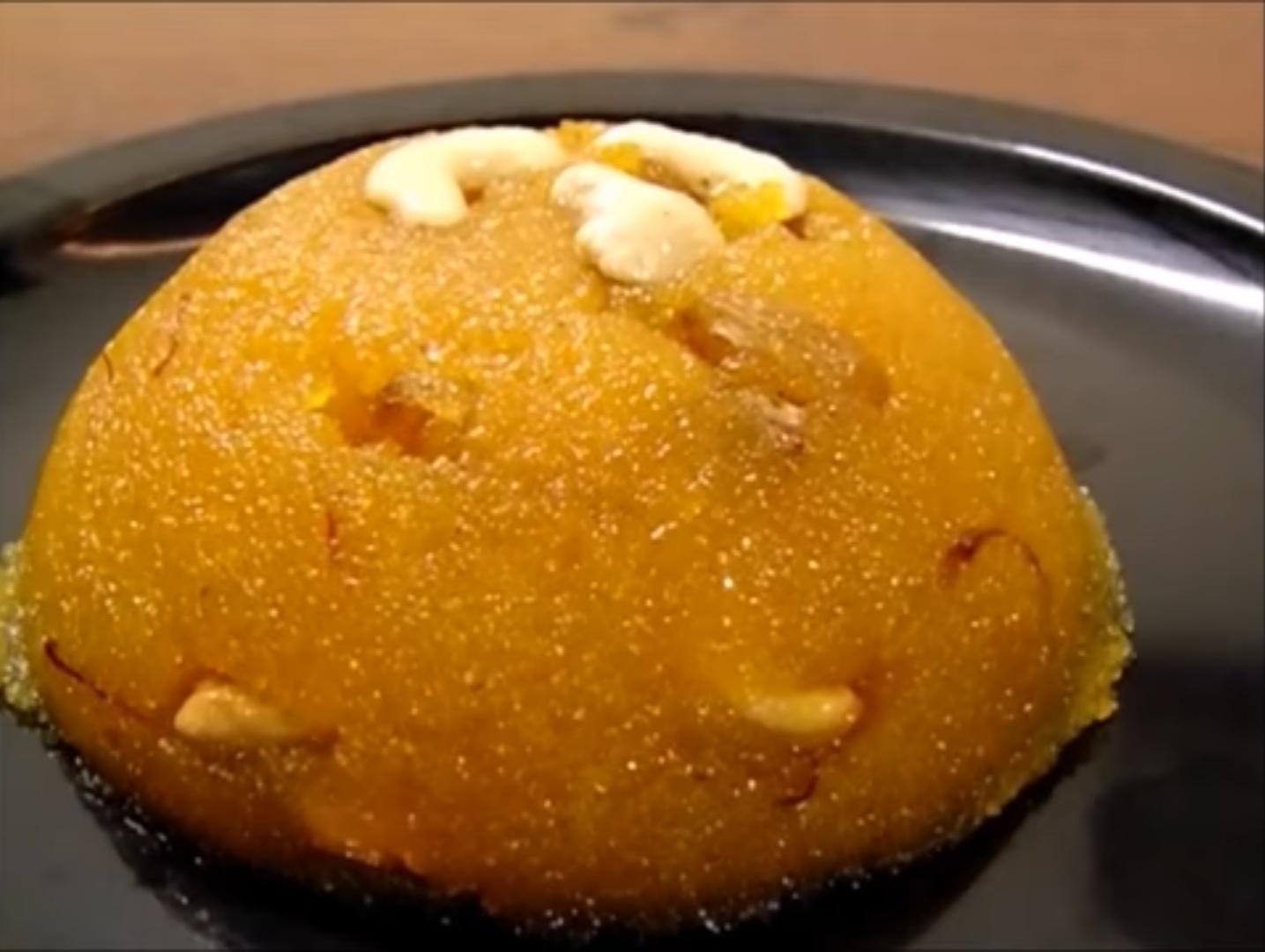 This is Kesari Bath which is made by Sugar, Rava, Kesari and Ghee. This is very common breakfast in South India.